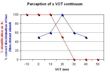 A graph that shows the categorization (or identification) and discrimination of stimuli in a voice-onset-time continuum